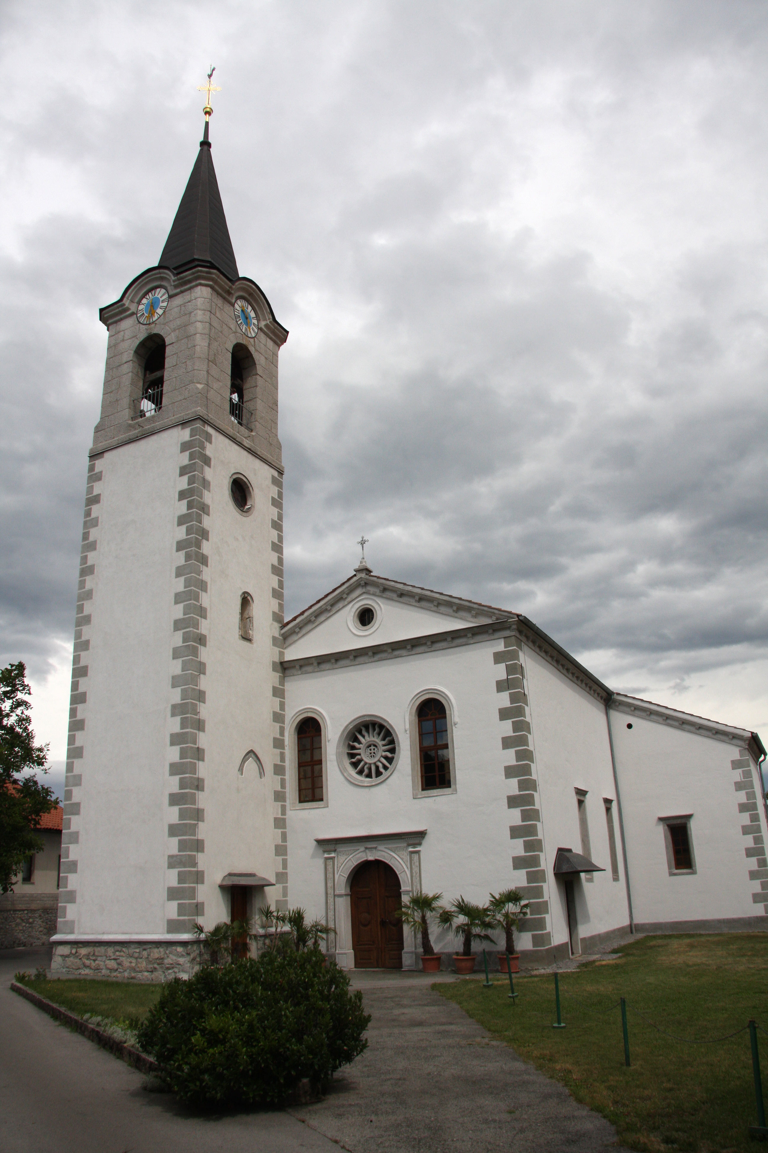 Saint Stephen church, Dolnja Košana, Slovenia.